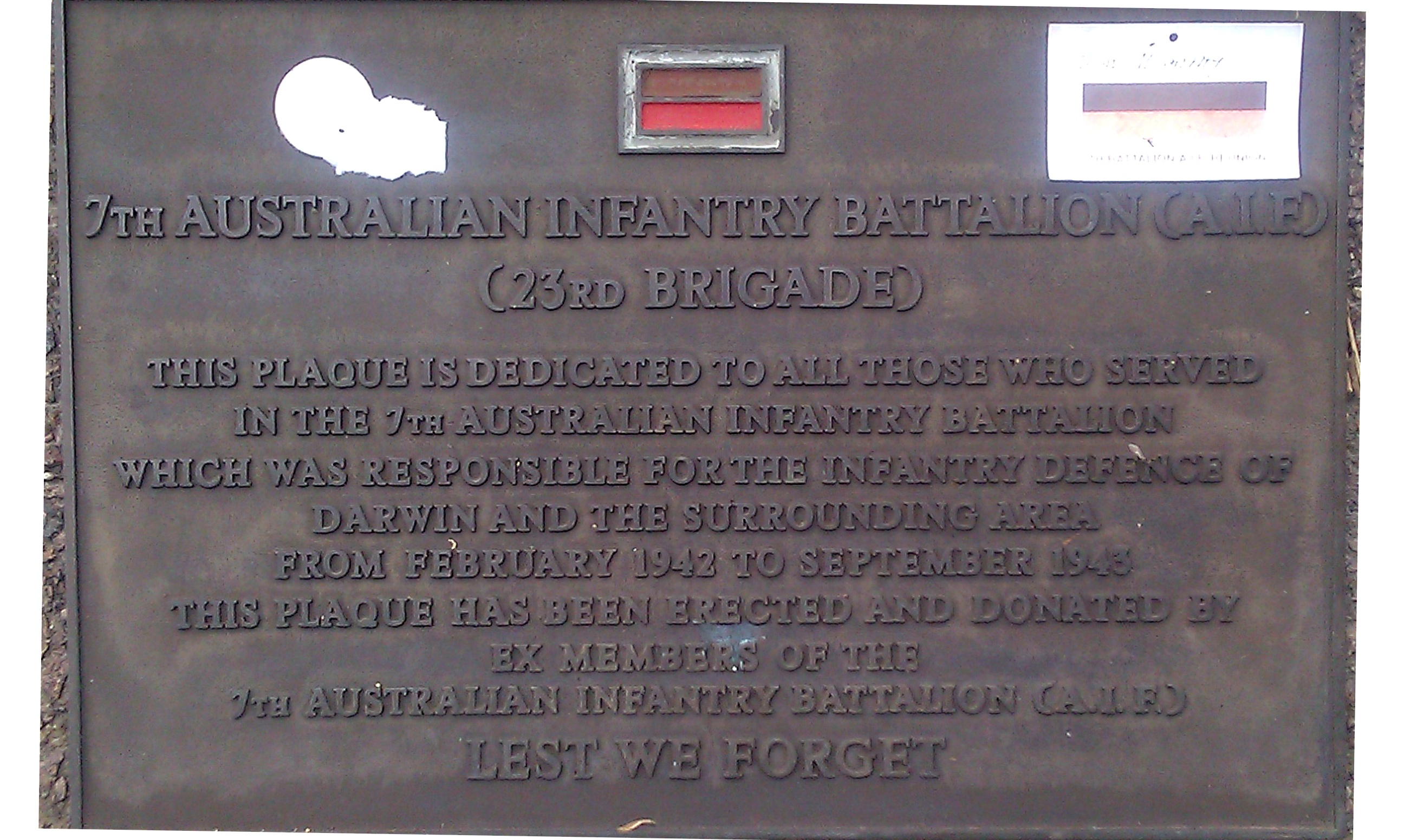 a WWII memorial plaque for the 7th Australian Infantry Battalion (23rd Brigade) at Bicentennial Park in Darwin, Northern Territory, Australia